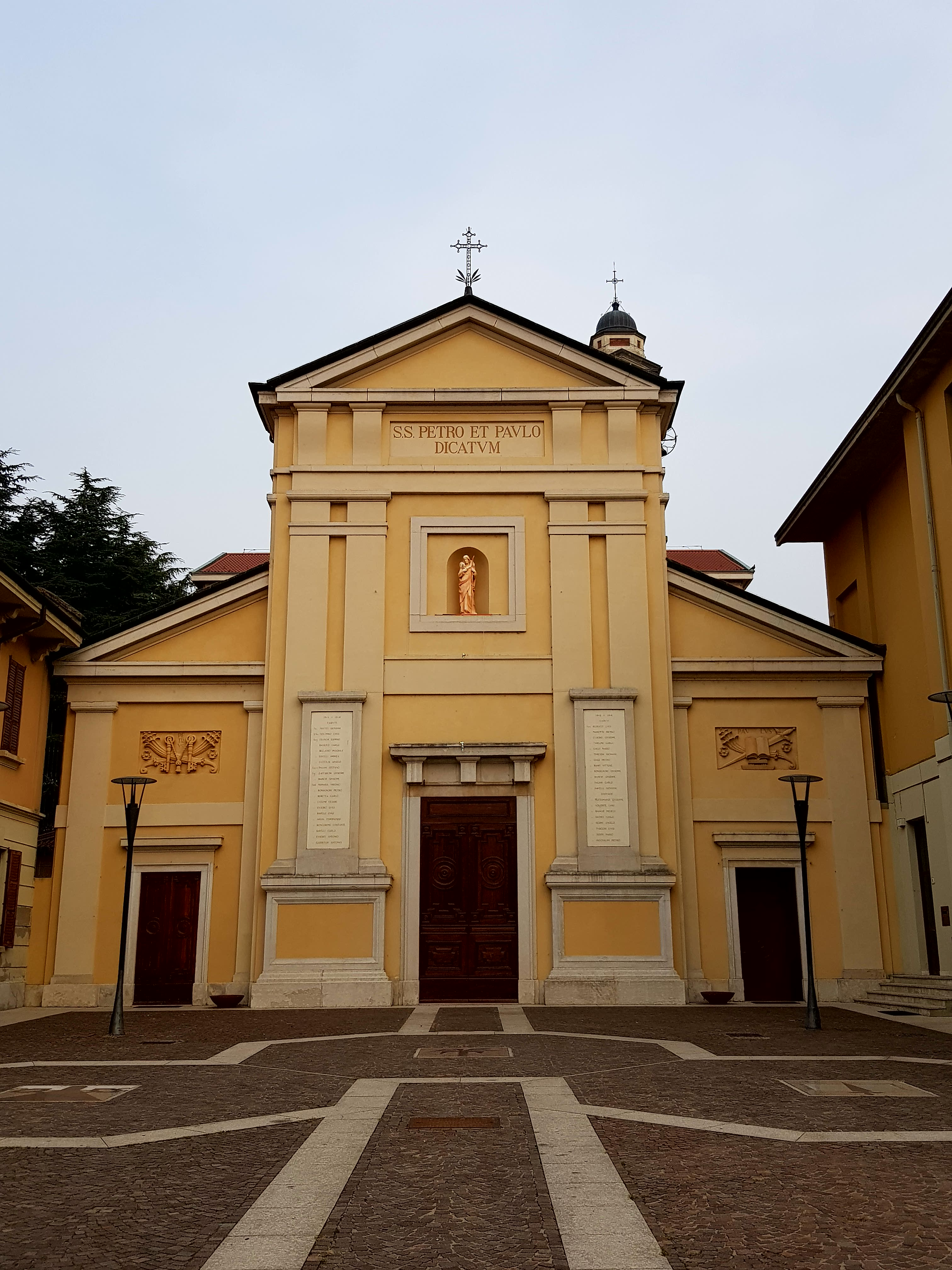 Frontal picture of the Church of St. Peter and Paul, Arese